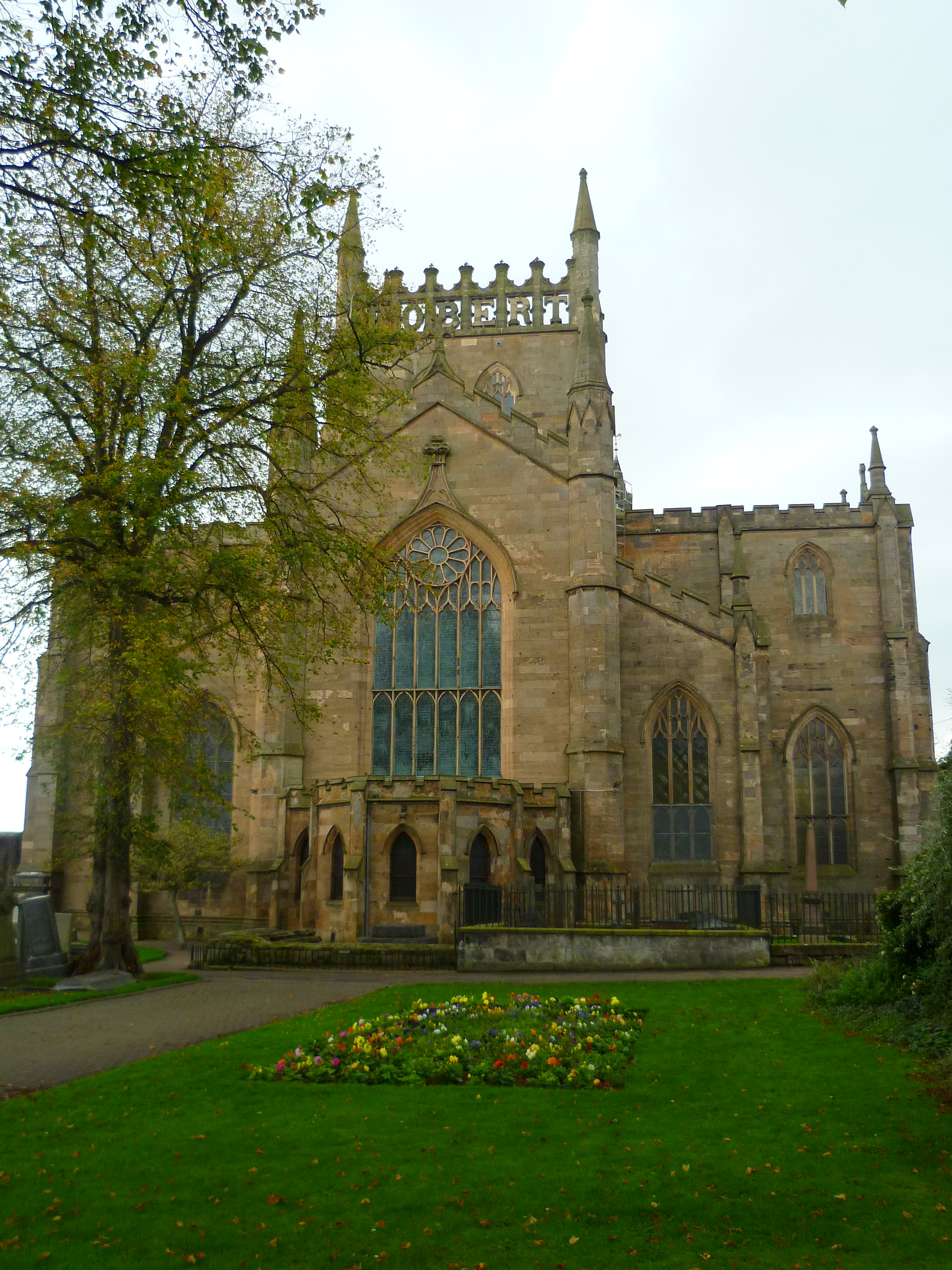 Dunfermline Parish Church, Fife